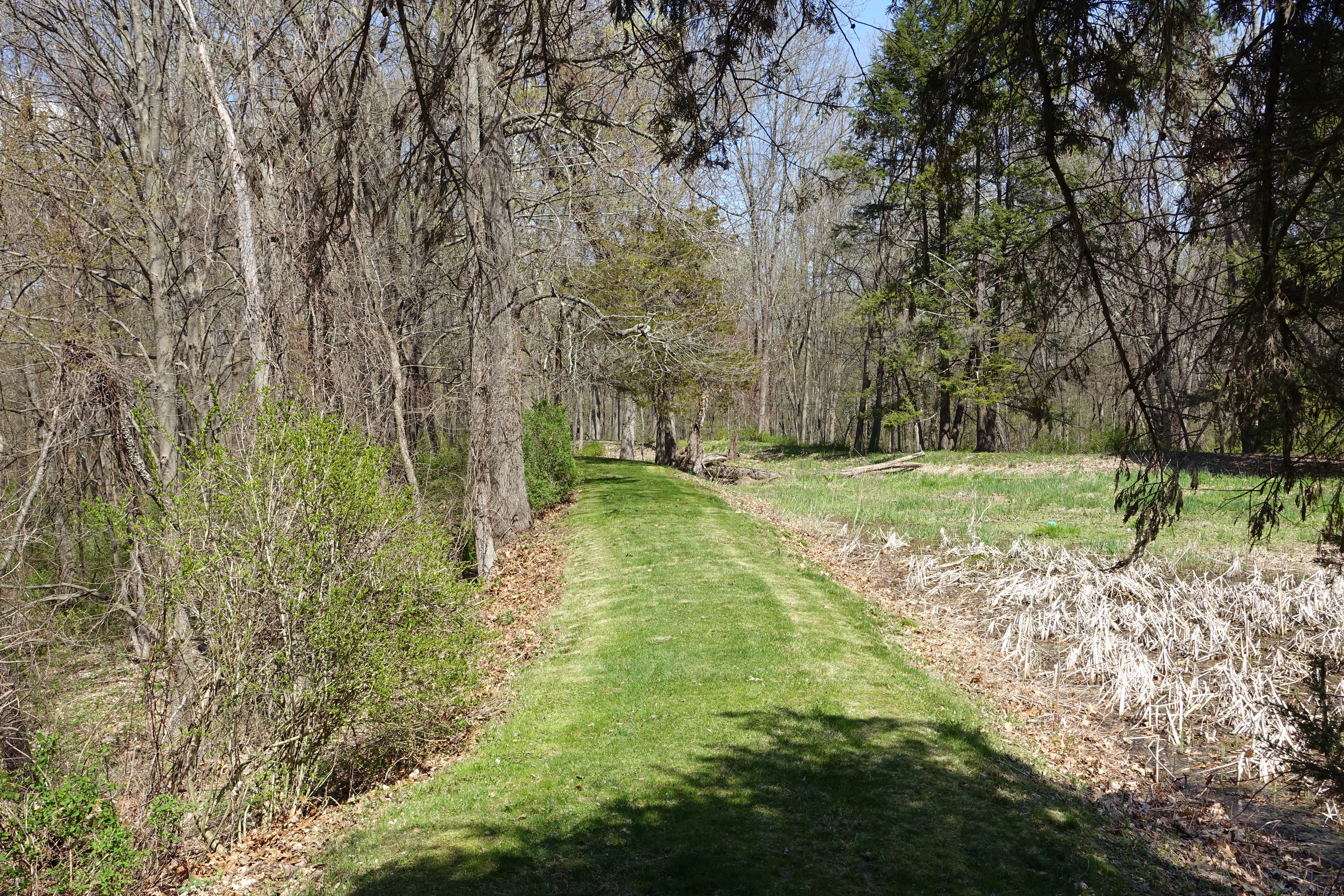 Remains of the Farmington Canal Aqueduct, over the Farmington River, in Farmington, Connecticut, USA. Officially opened in 1828; converted to railway in 1848. Aqueduct's pillars removed in 1956-58.